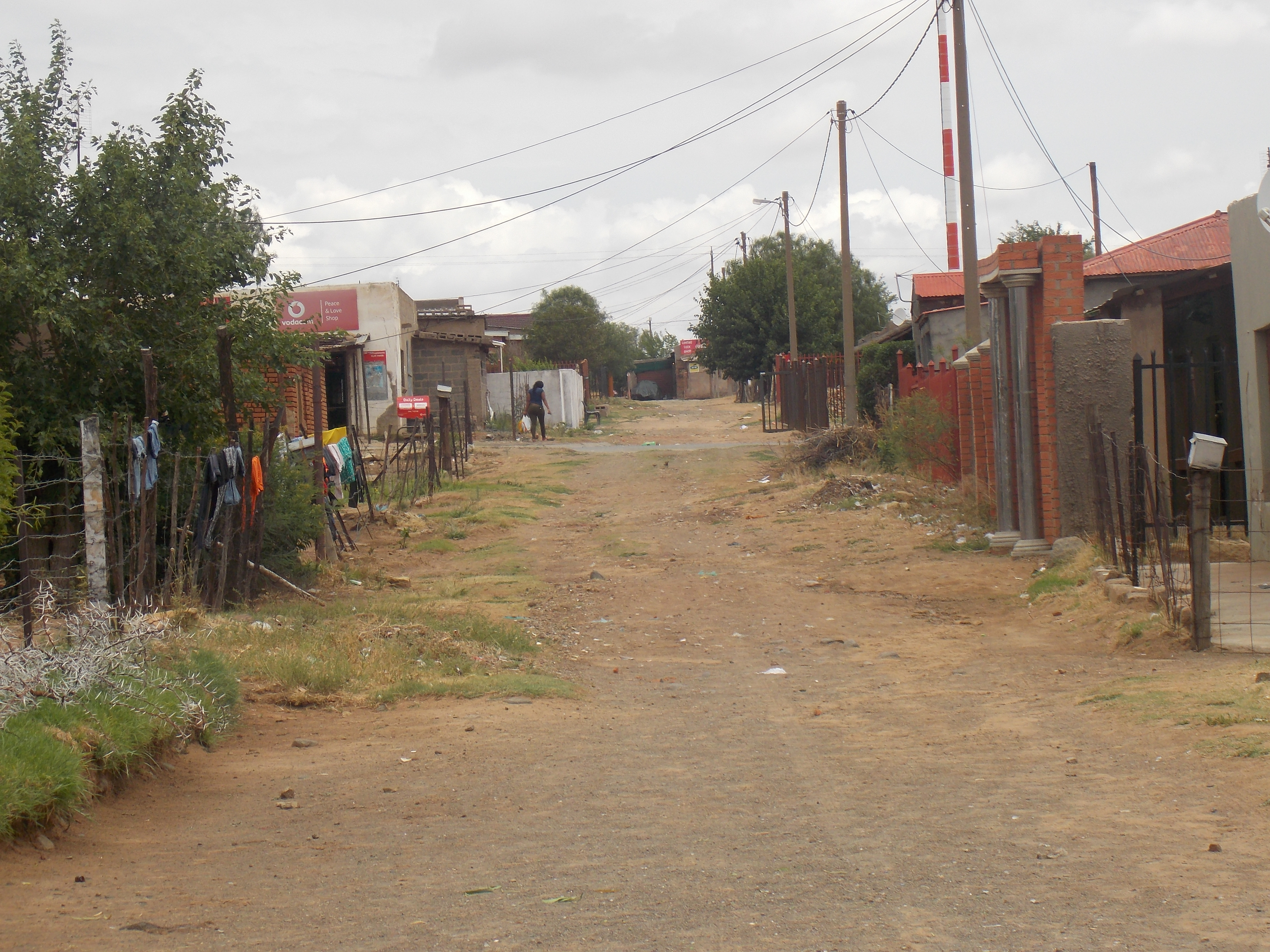 WEPENER TOWNSHIP STREETS This is an image with the theme "Africa on the Move or Transport" from: South Africa